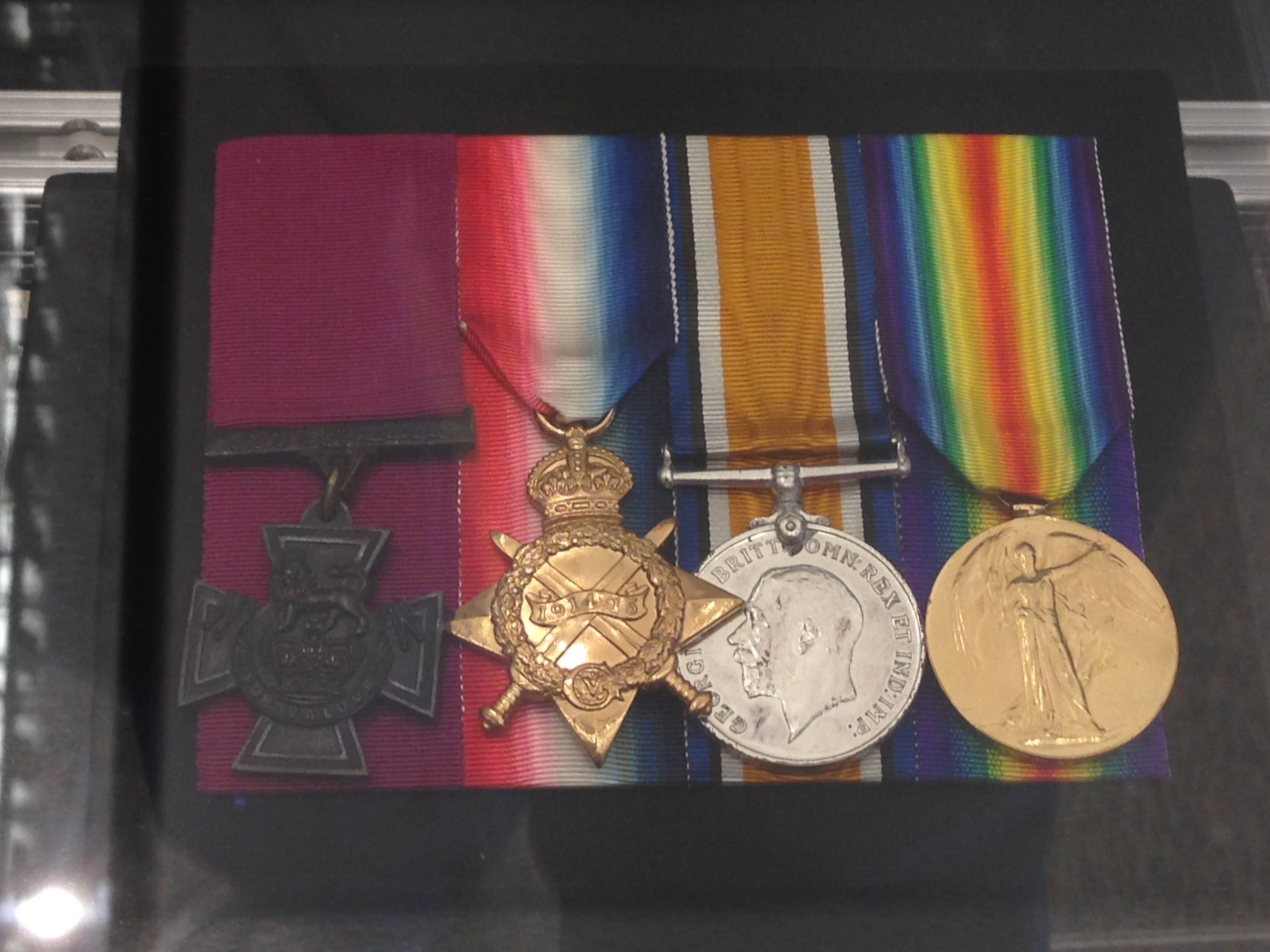 Decoration and Medals of Frederick William Hall, VC on display at the Manitoba Museum, Winnipeg, Manitoba, October 19, 2014